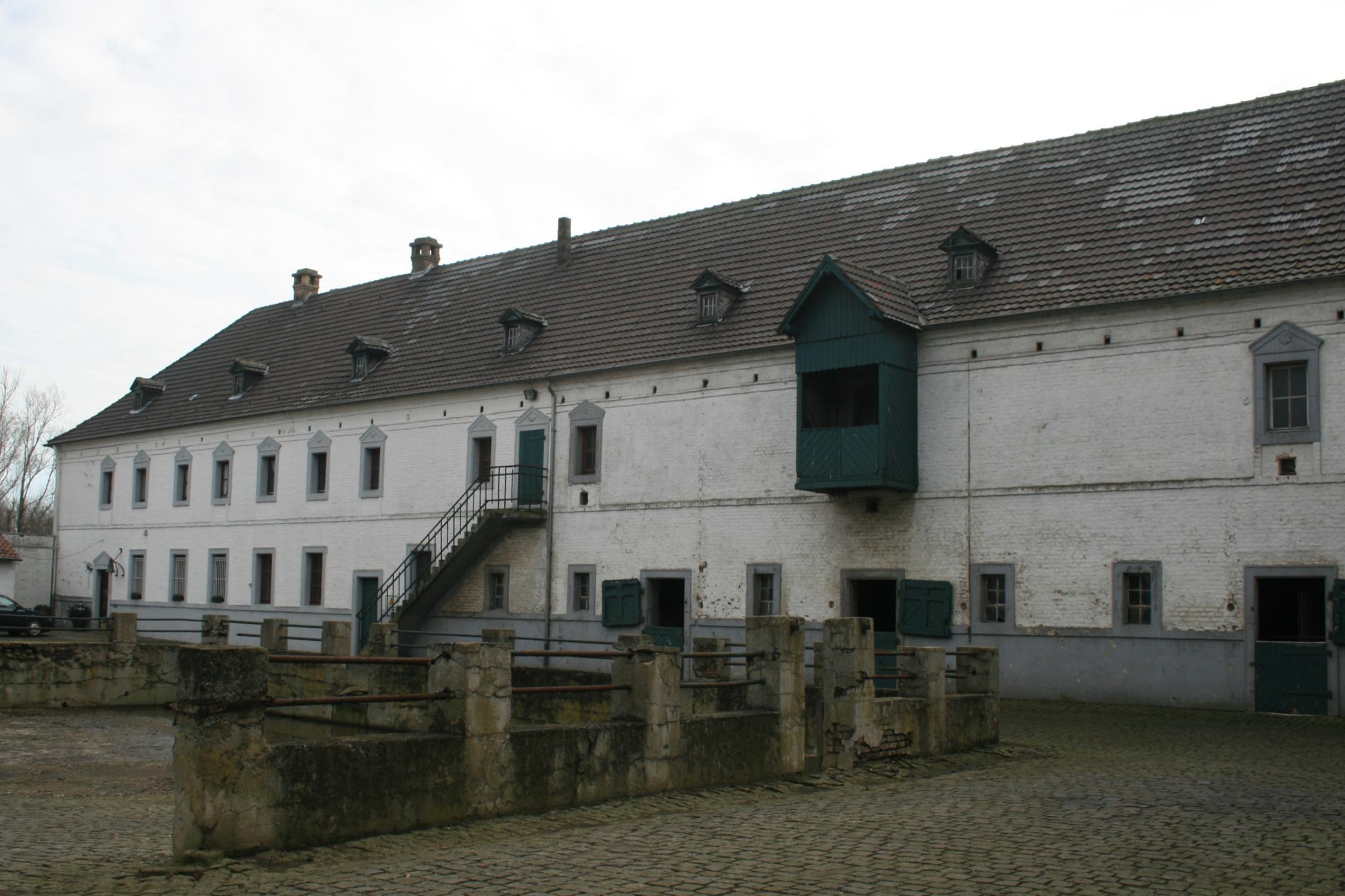 Cultural heritage monument No. 36 in Inden